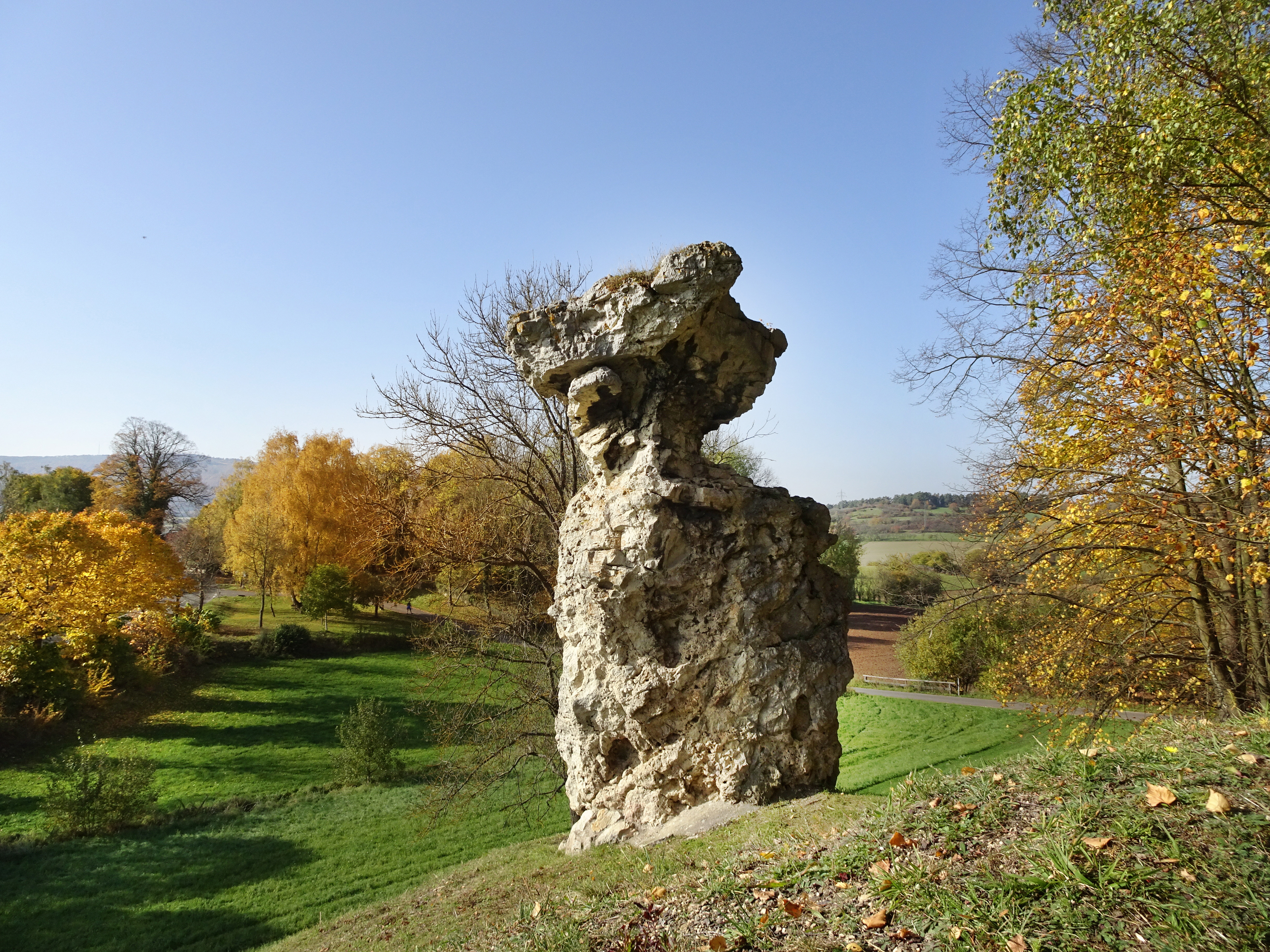 The Zechstein limestone "Abteröder Bär" ("Abterode Bear") was probably named after its distinctive shape, which is reminiscent of an upright bear. Its previous name was "Todstein" ("Stone of death"). They say that at this location has been a pre-Christian place of worship where they celebrated the end of winter and the beginning of spring in honour of "Mother Holle". Already in 1926 this limestone and its environment have been designated as botancial and natural history monument. This location is part of fauna flora habitat 4725-306 "Meißner und Meißner Vorland" within the geo and nature park "Geo-Naturpark Frau-Holle-Land", NE Hesse, Germany.